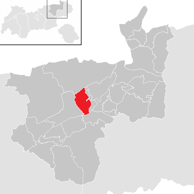 District Kufstein